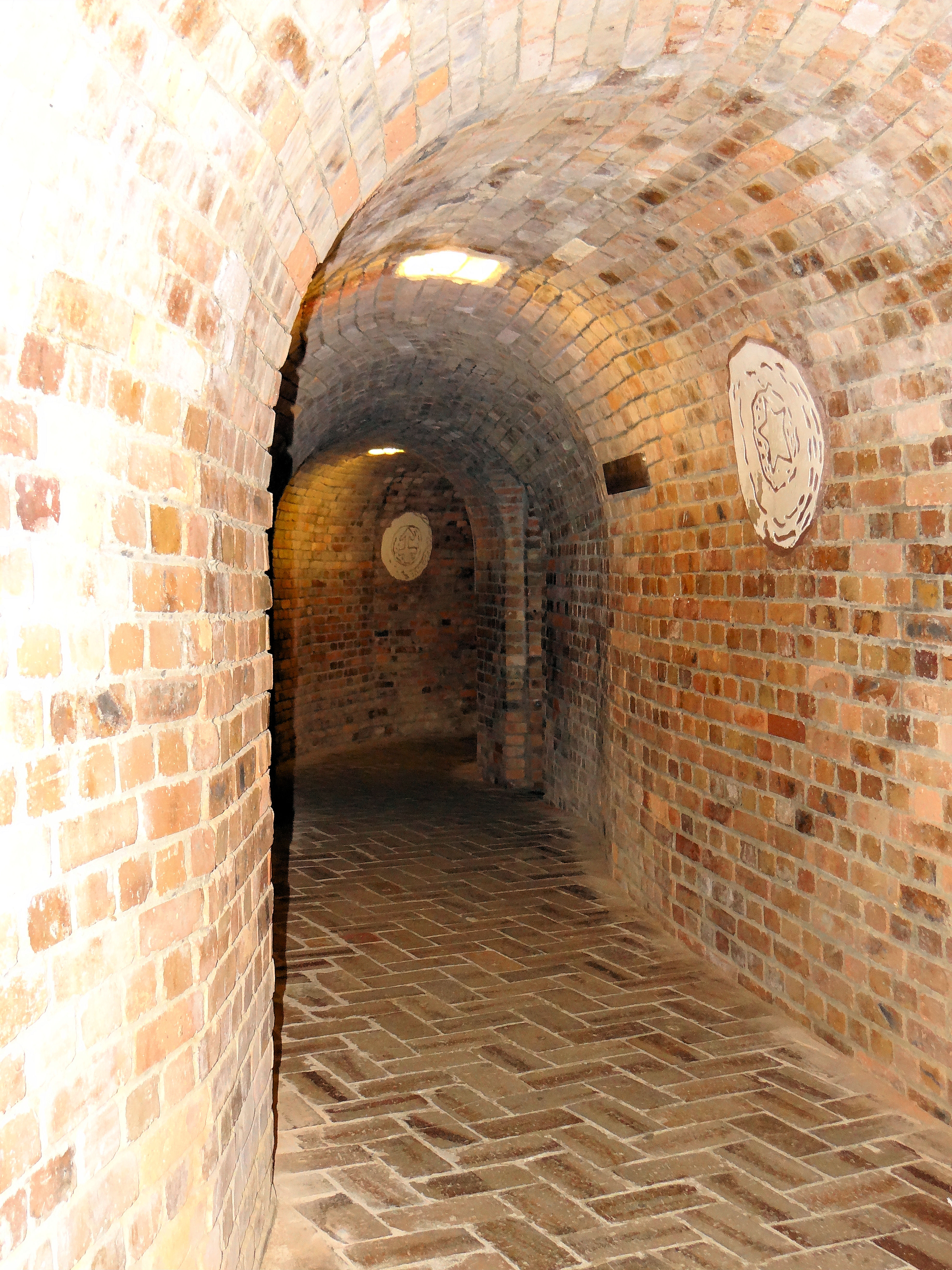 Cellars - the underground tourist route in Sandomierz